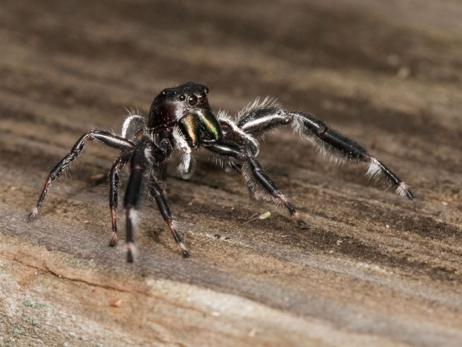 Adult male Phidippus clarus jumping spider in courtship posture. Photographed at Shelby Park in Nashville, Tennessee.